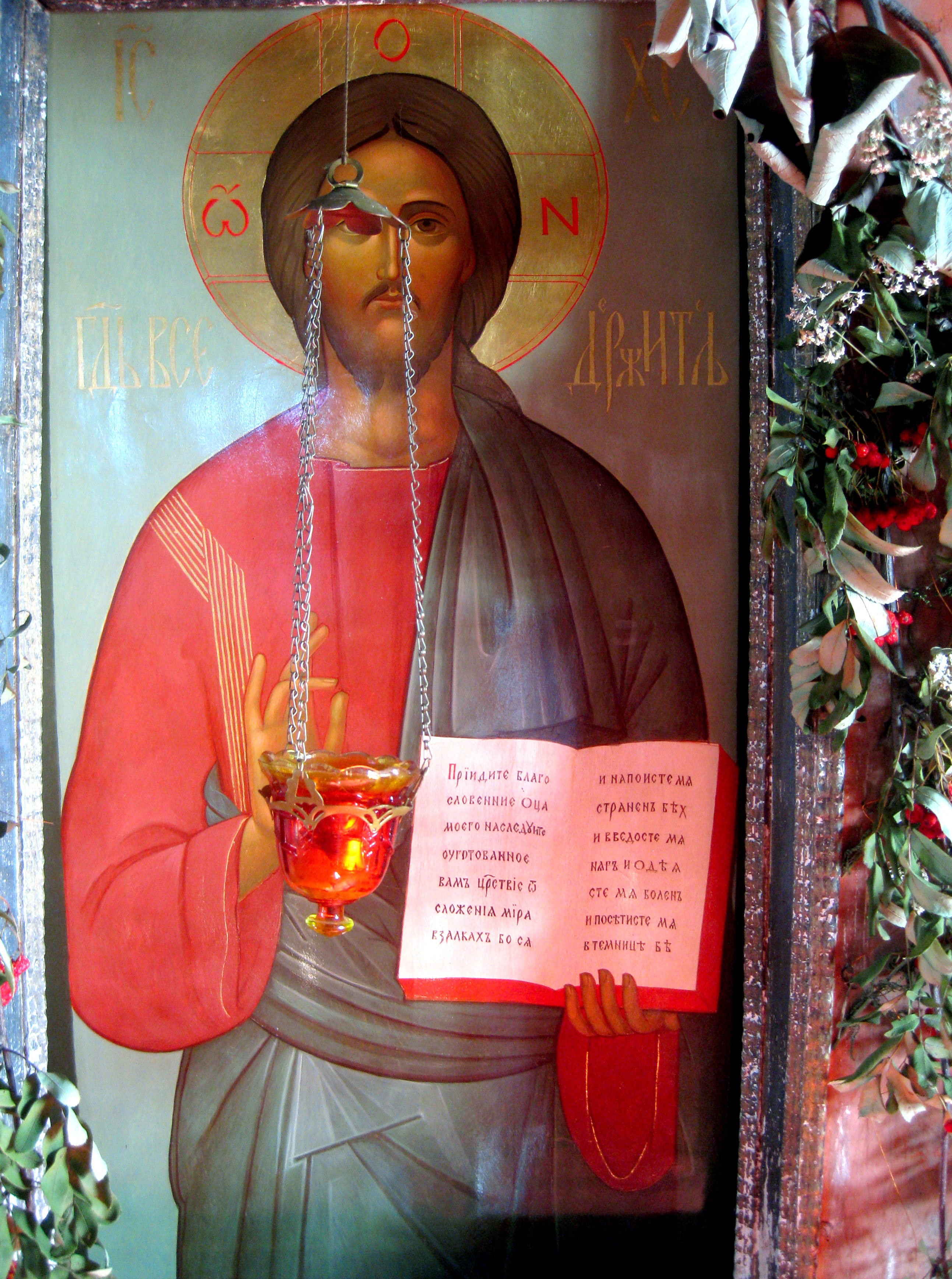 The title: "God the Almighty". The open book with text from Gospel of Matthew. Church of the Dormition of the Theotokos (1774) at Kondopoga.